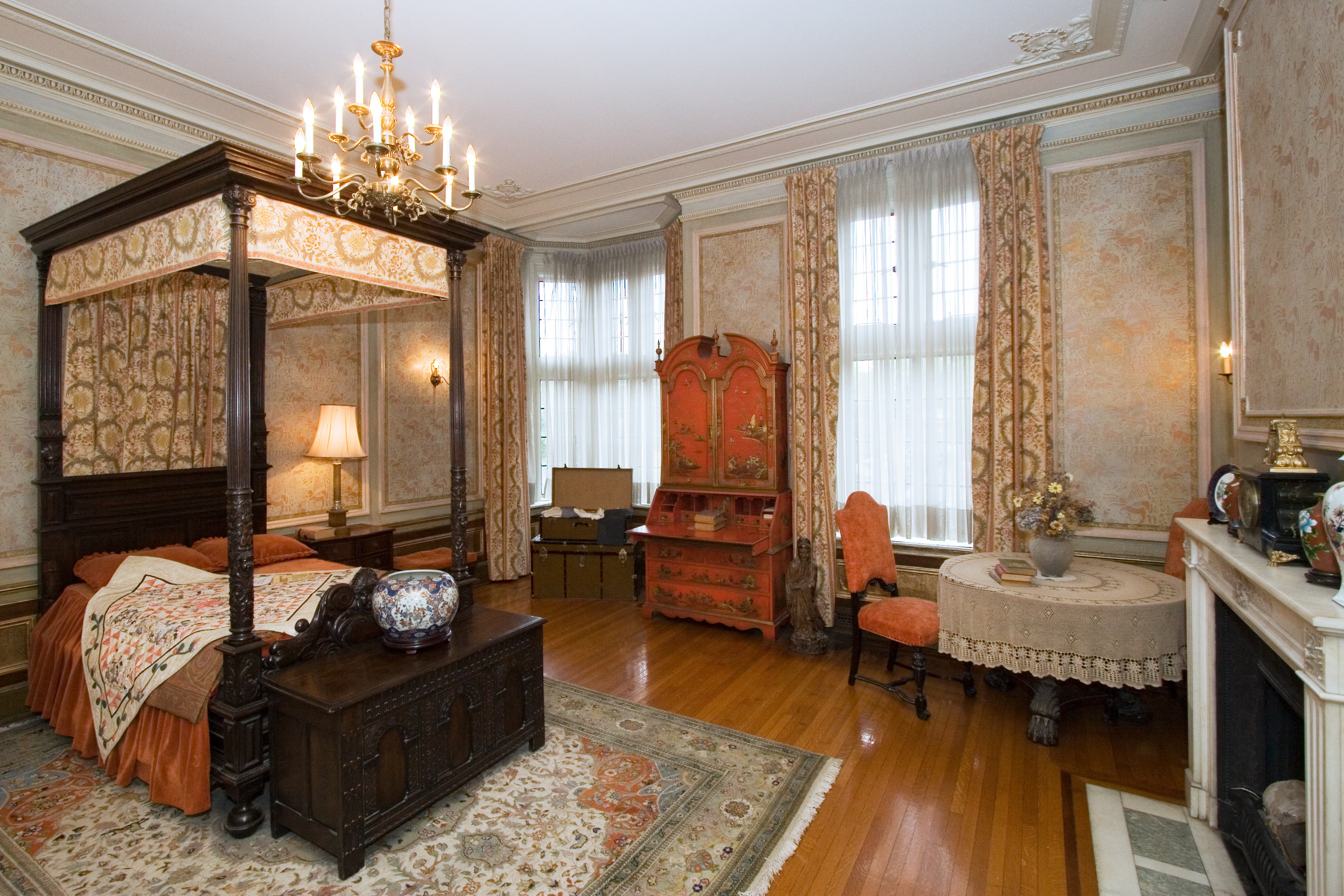 The Guest Room at Casa Loma, 1 Austin Terrace, Toronto, Ontario, Canada.